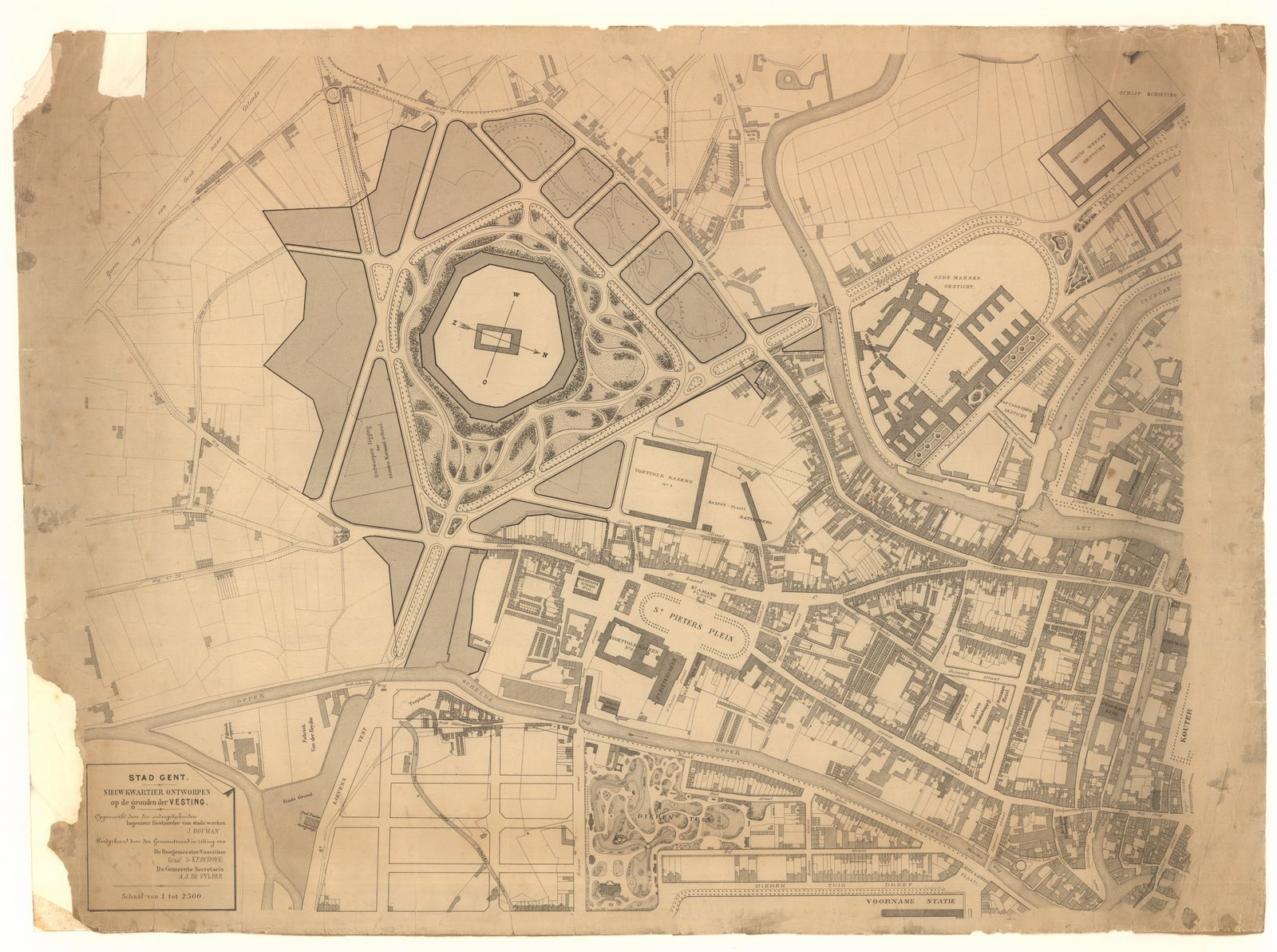 Map_of_Ghent,_Belgium,_1874.jpg